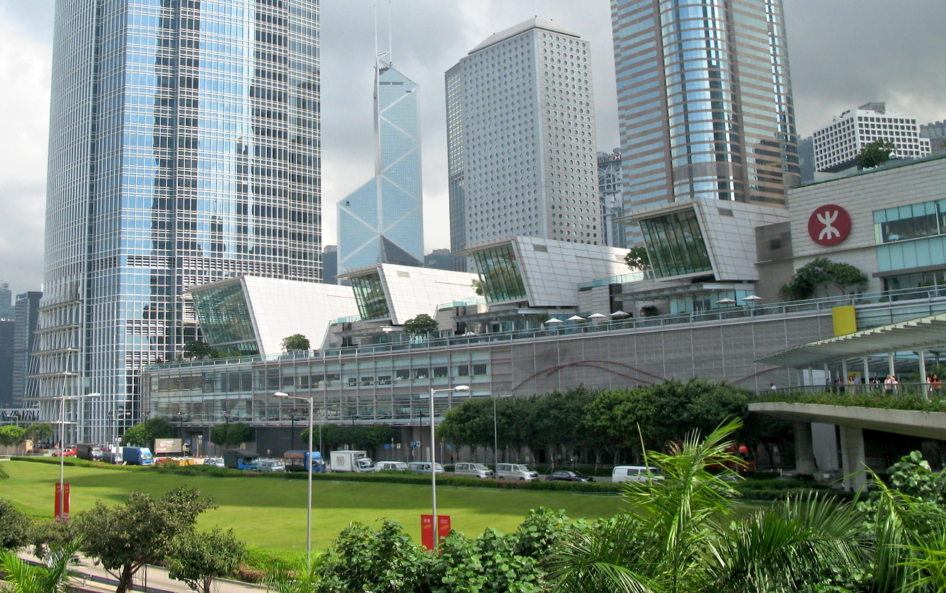 ifc mall Outside View 國際金融中心商場